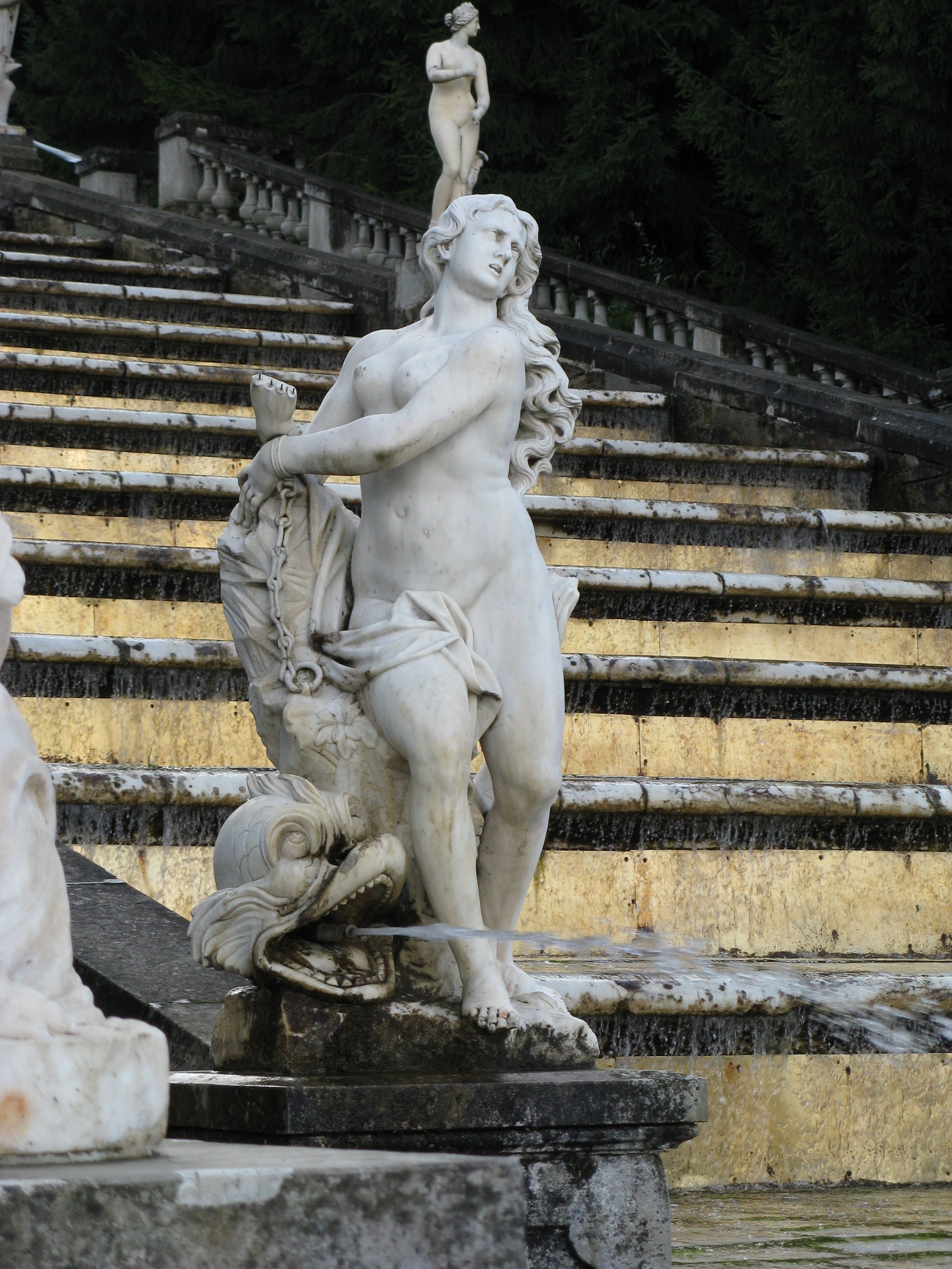 Andromeda at The Golden stair Cascade.